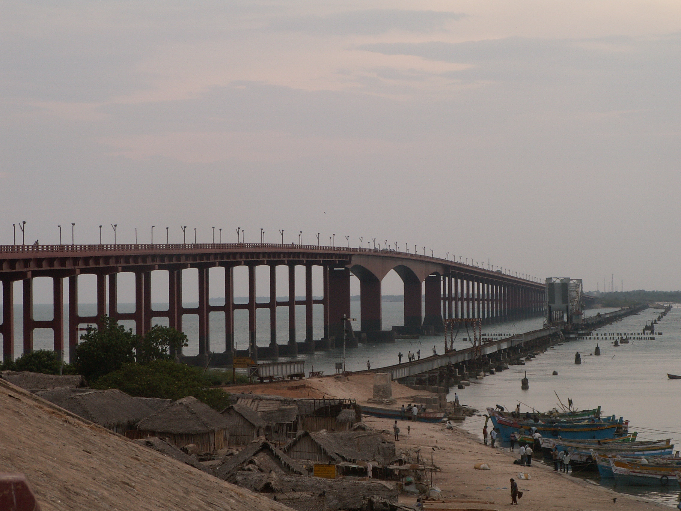 Author:Clt13